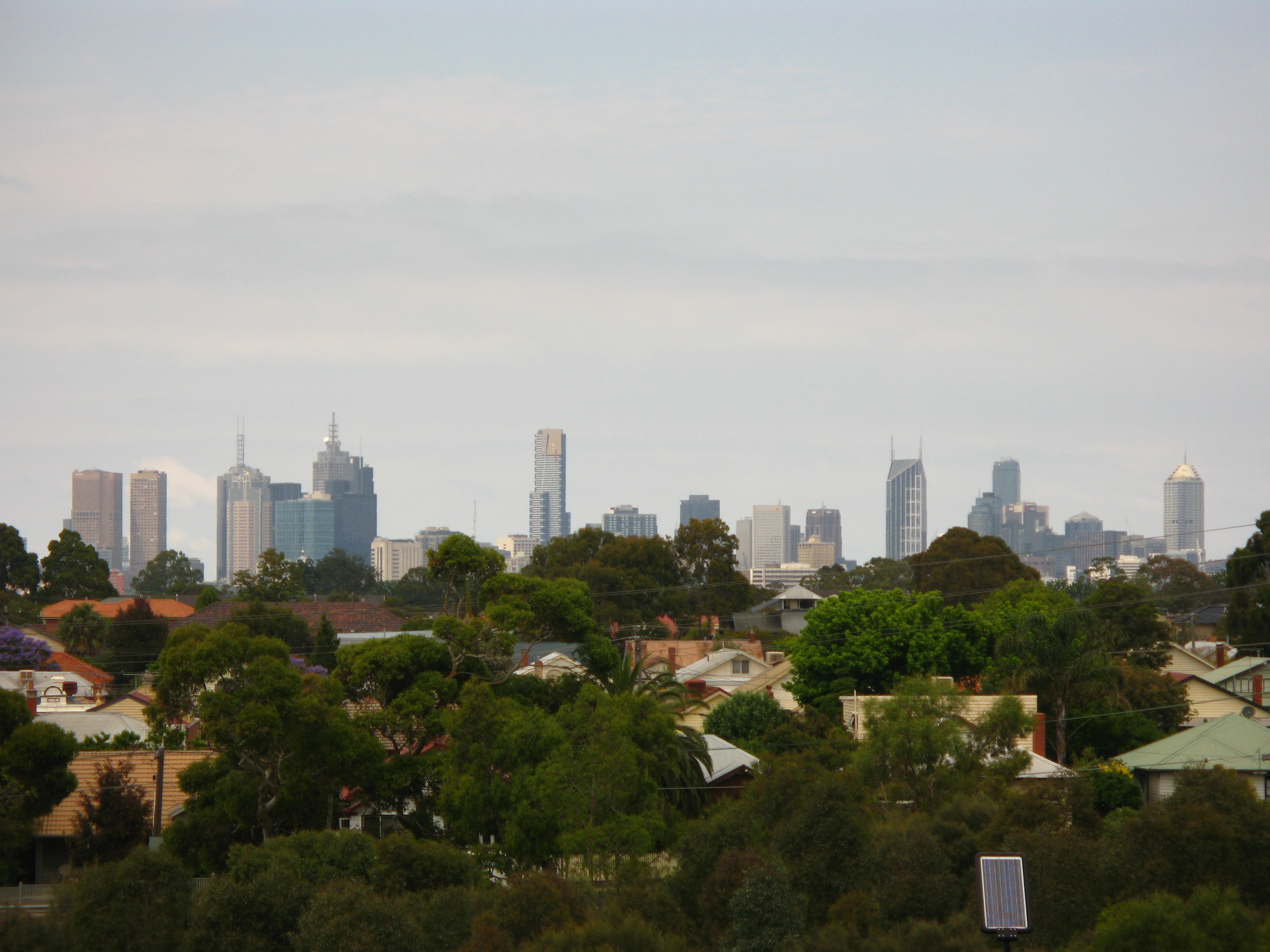 Melbourne skyline from a park in Brunswick East, Victoria, Late 2009.